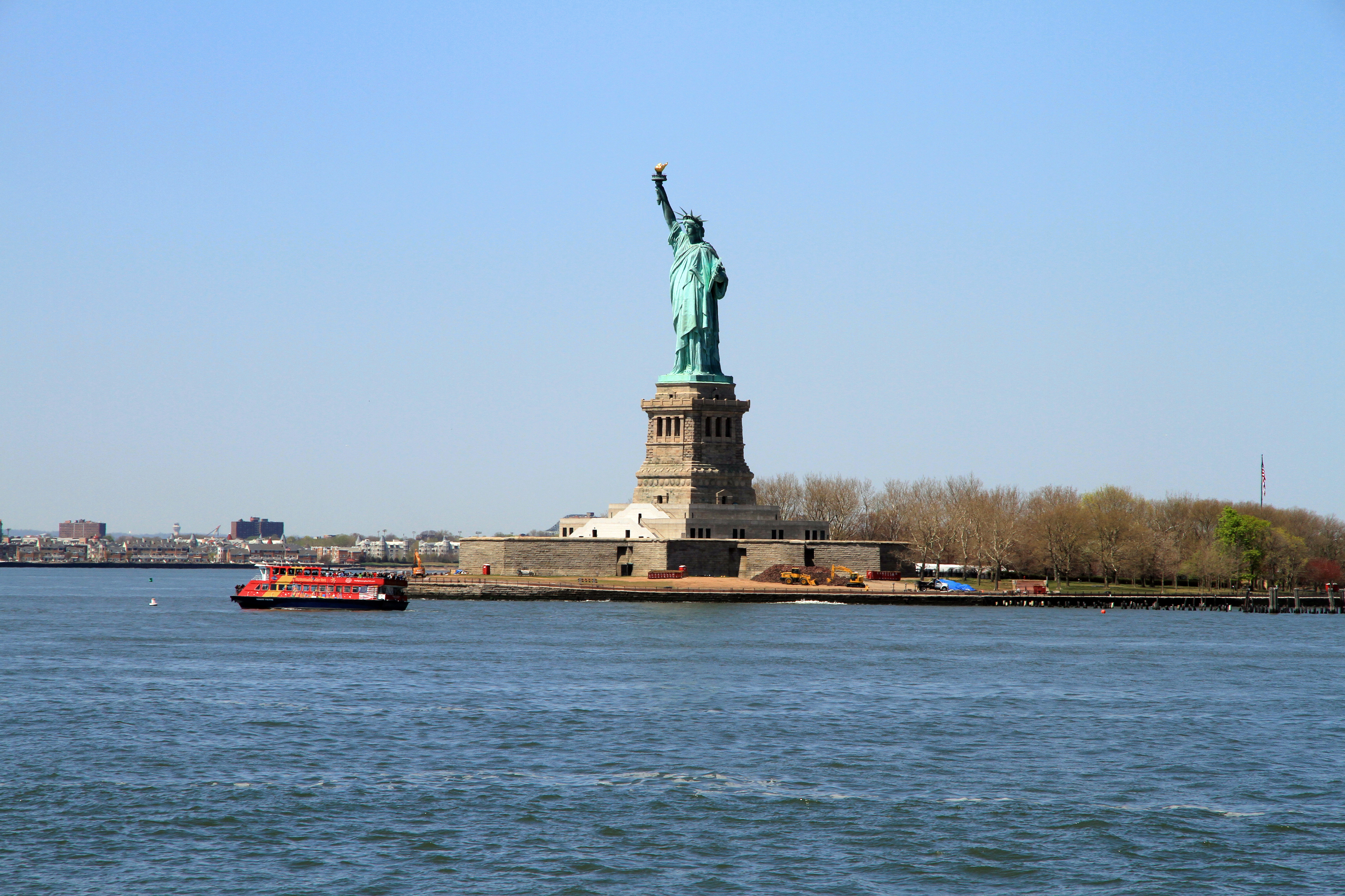 Liberty Island